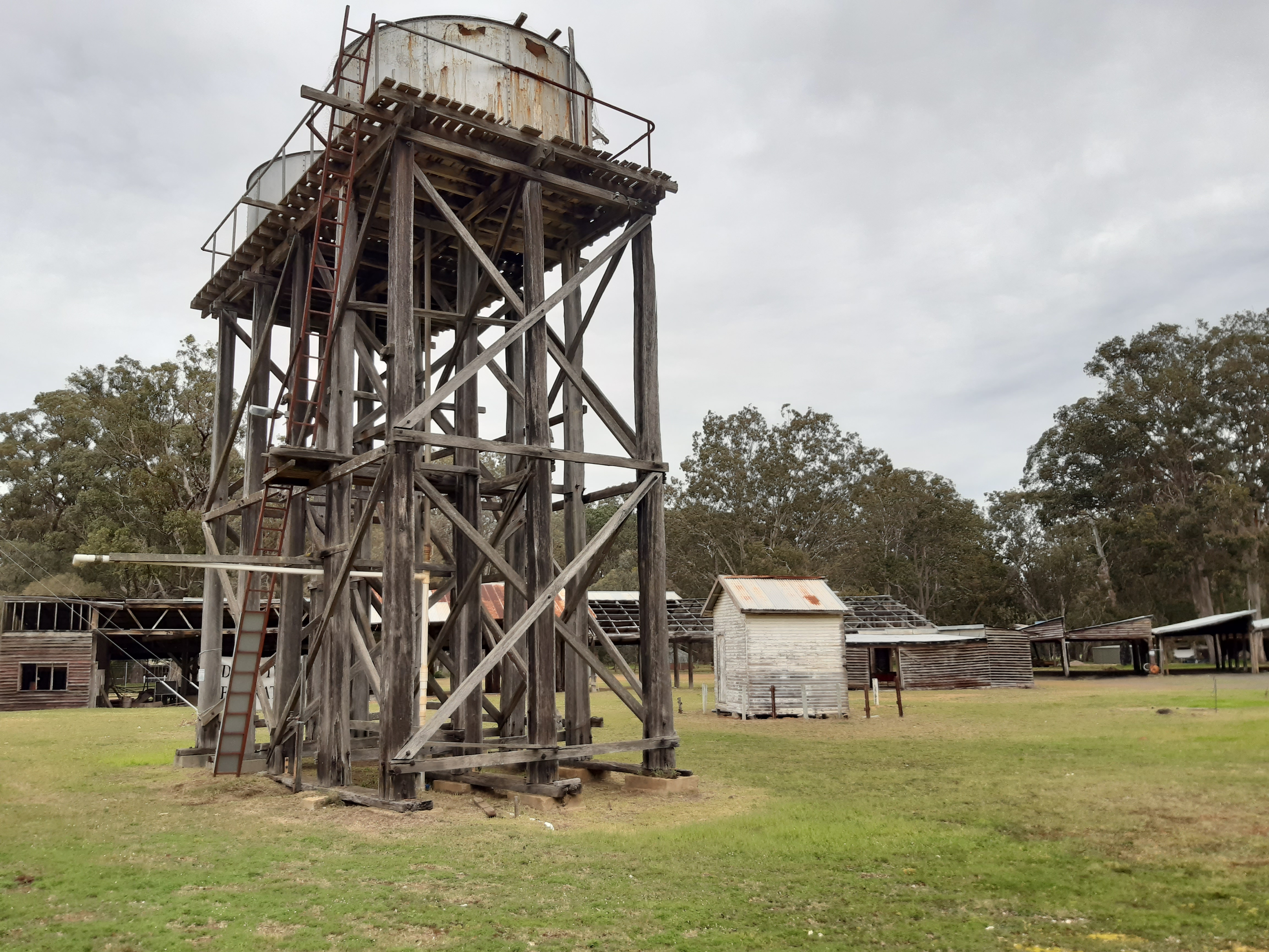 The heritage listed Ludlow Forestry Mill and Settlement, Western Australia.